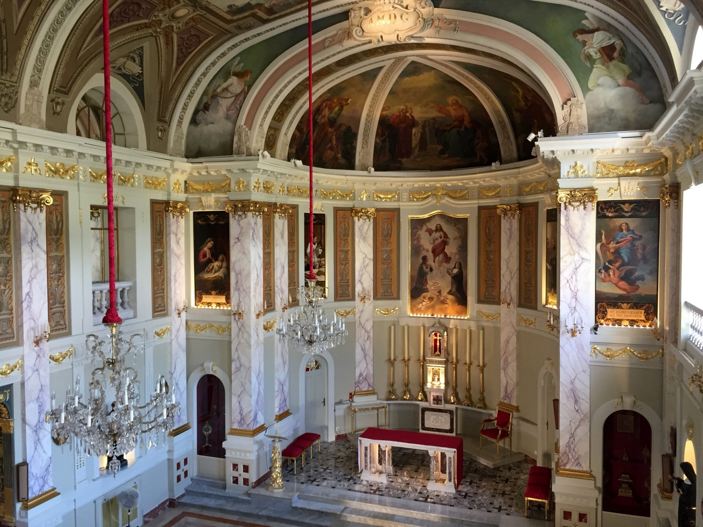 Church of the Sacred Heart of Monaco from the balustrade